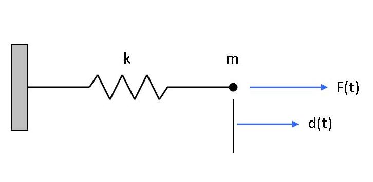 1 boundary condition spring mass system